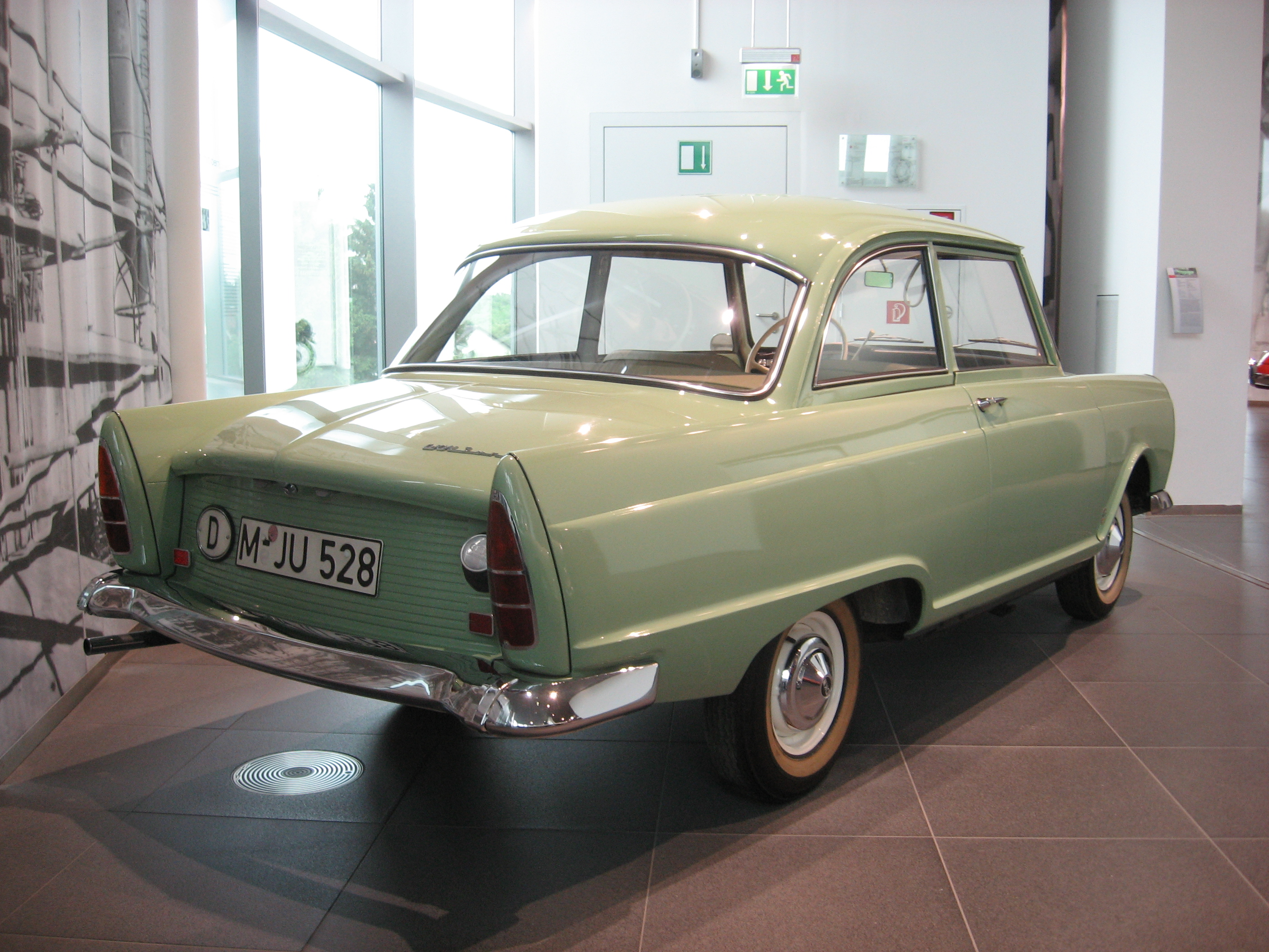 Subject: DKW Junior Author: Luc106 Date:June 13th, 2011 Place/Country: Audi Museum, Ingolstadt (Deutschland) I release all rights in the public domain. Licensing